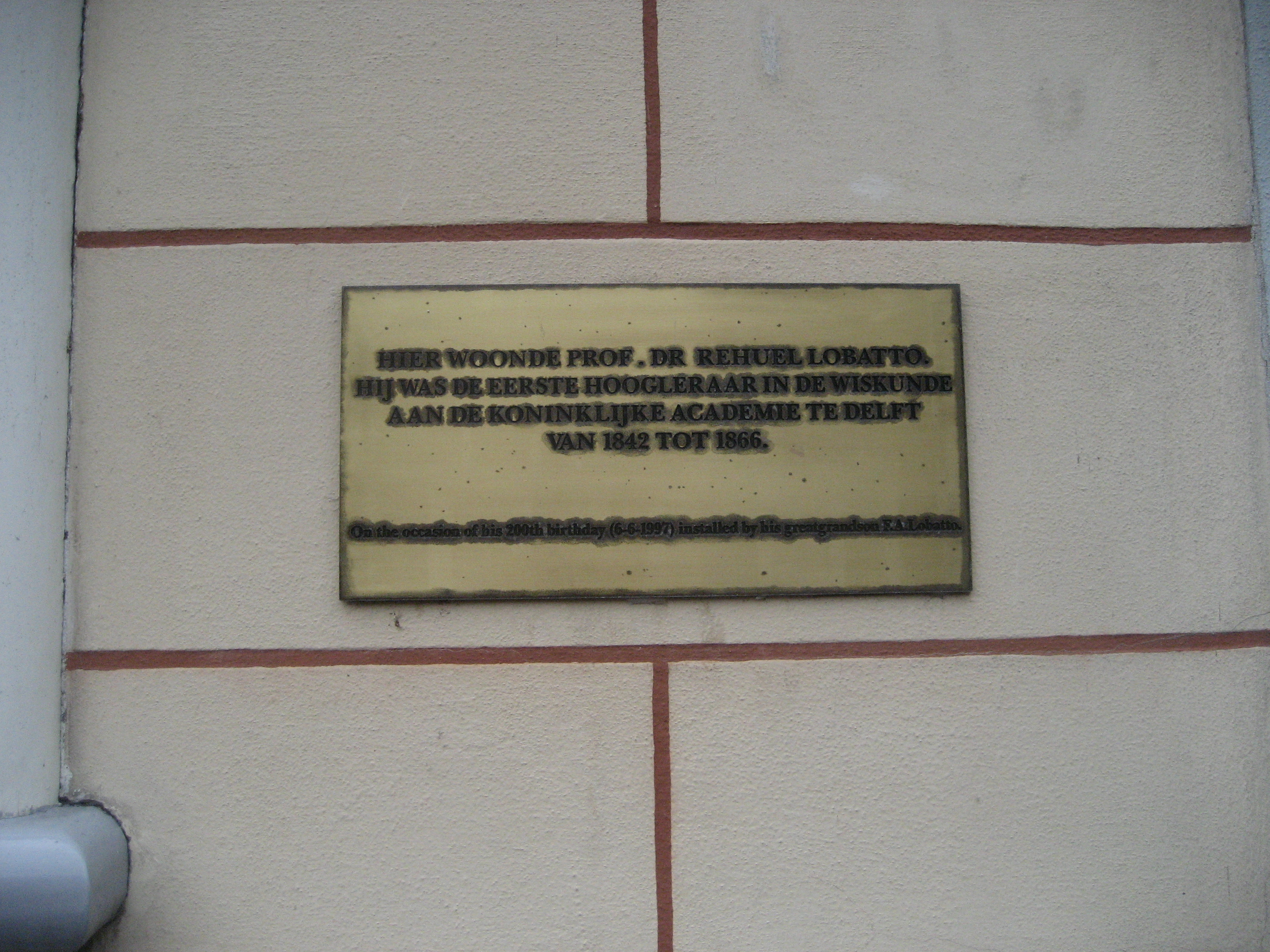 Plaque at Koornmarkt 71, Delft (the Netherlands), commemorating Rehuel Lobatto, mathematician in Delft